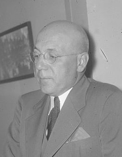 Photograph of Charles J. Margiotti, prominent Philadelphia lawyer and two-time state Attorney General. Other information File is a crop of File:Charles J. Margiotti in D.C., 1937-07-16.jpg.